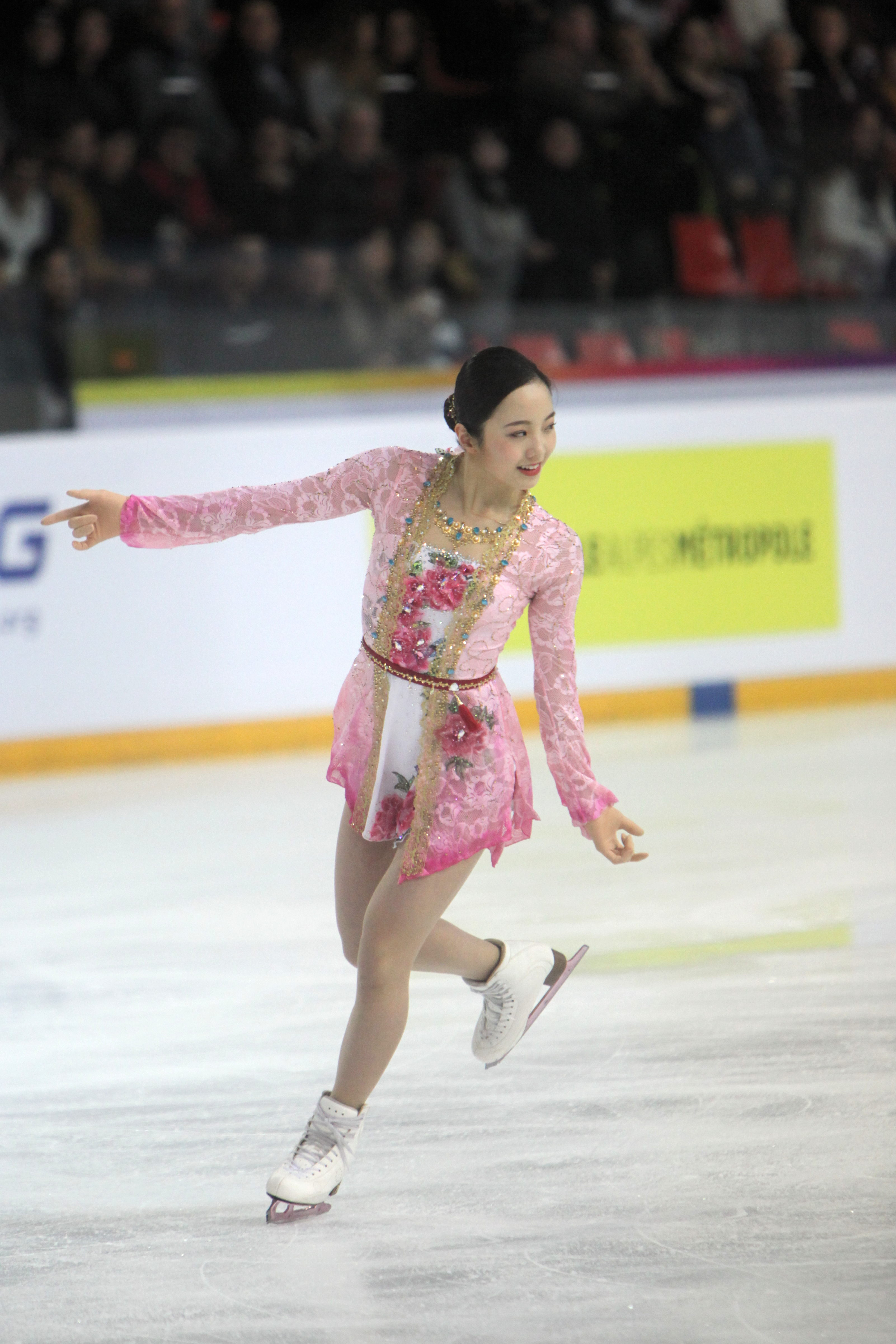 Marin Honda during the Ladies Free Skating at the Internationaux de France de Patinage 2018.